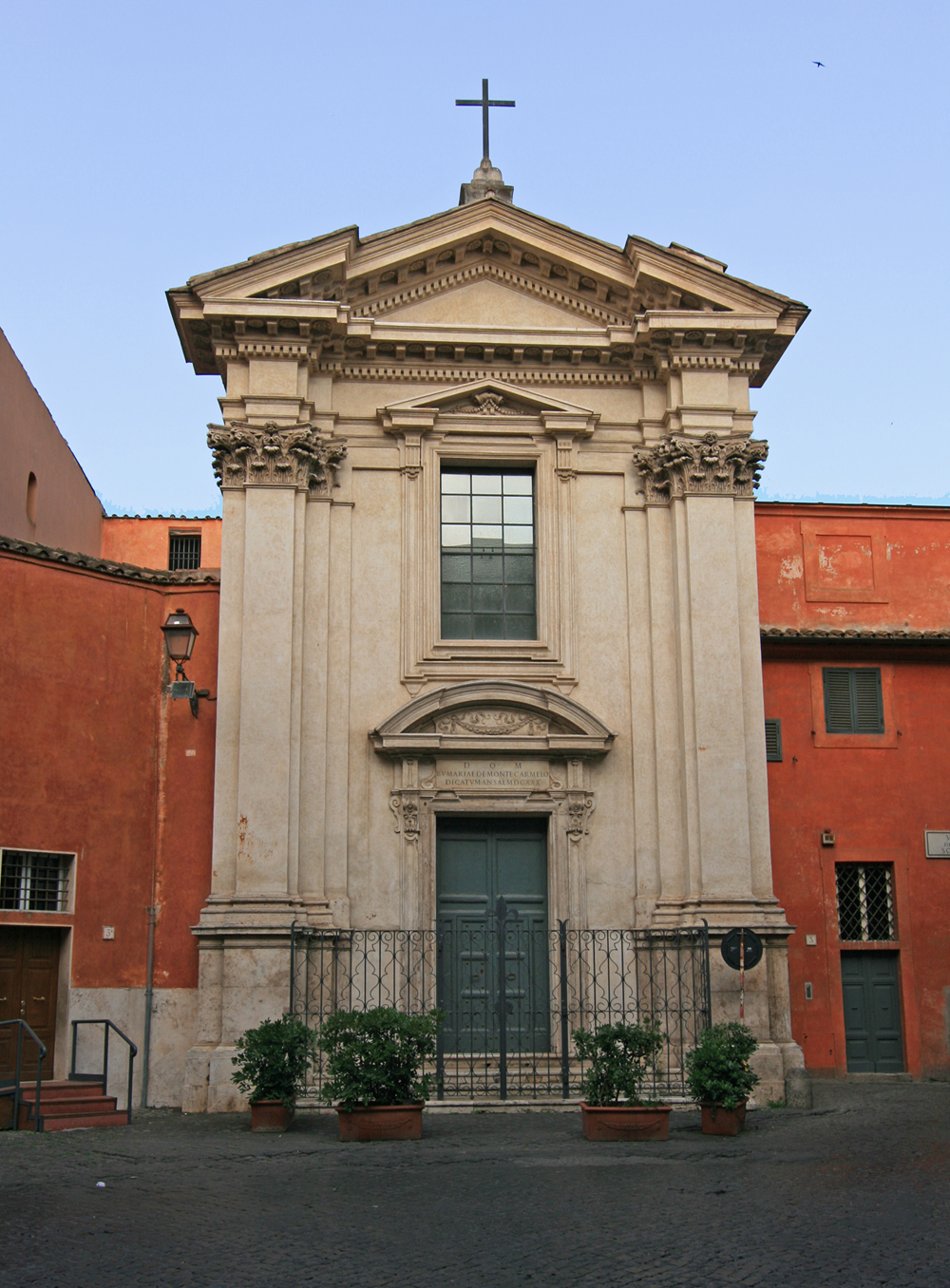 Sant'Egidio, Trastevere, Roma.